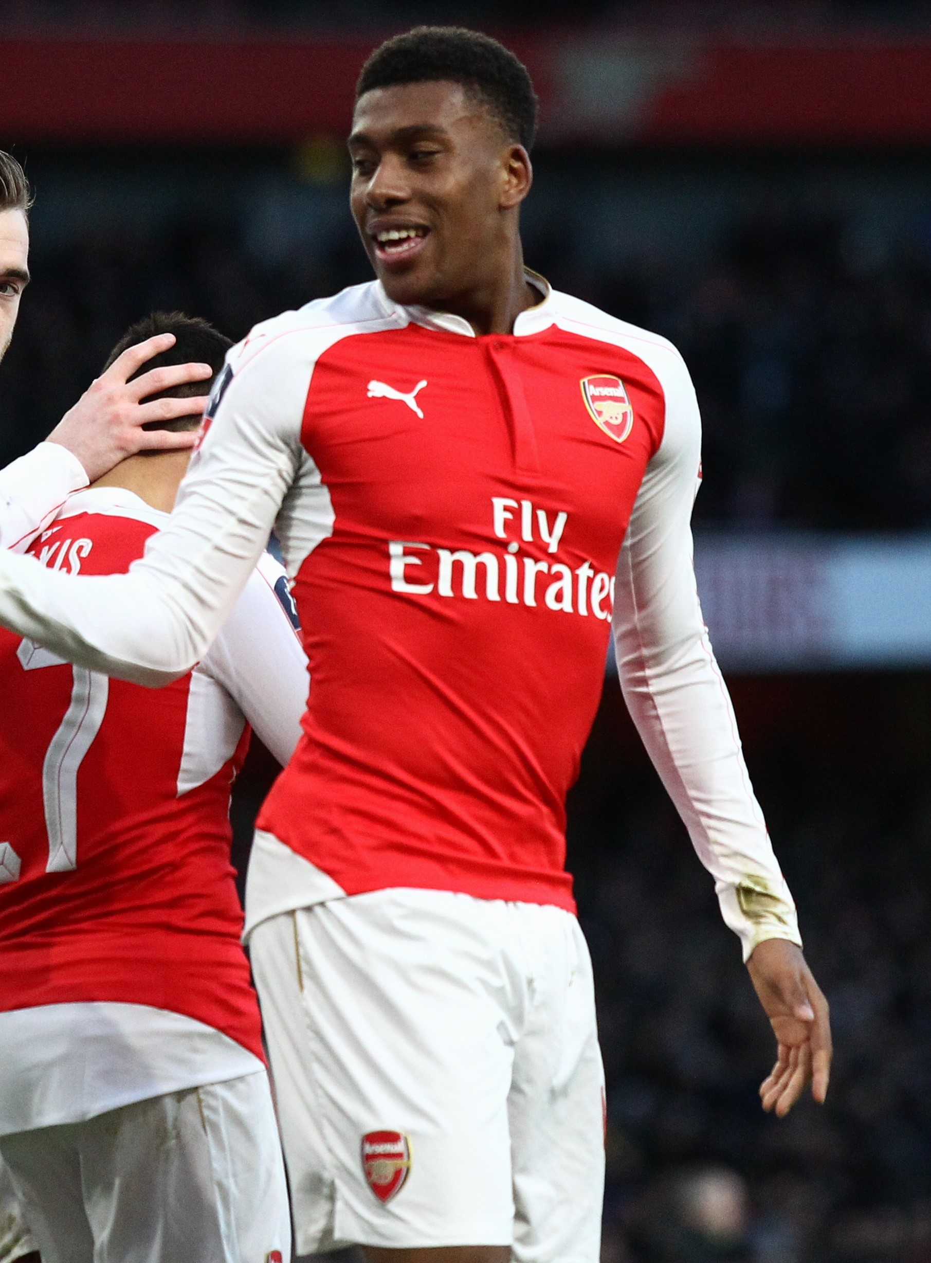 Alexis Sanchez of Arsenal celebrates his goal with his team mates during the game against Burnley.